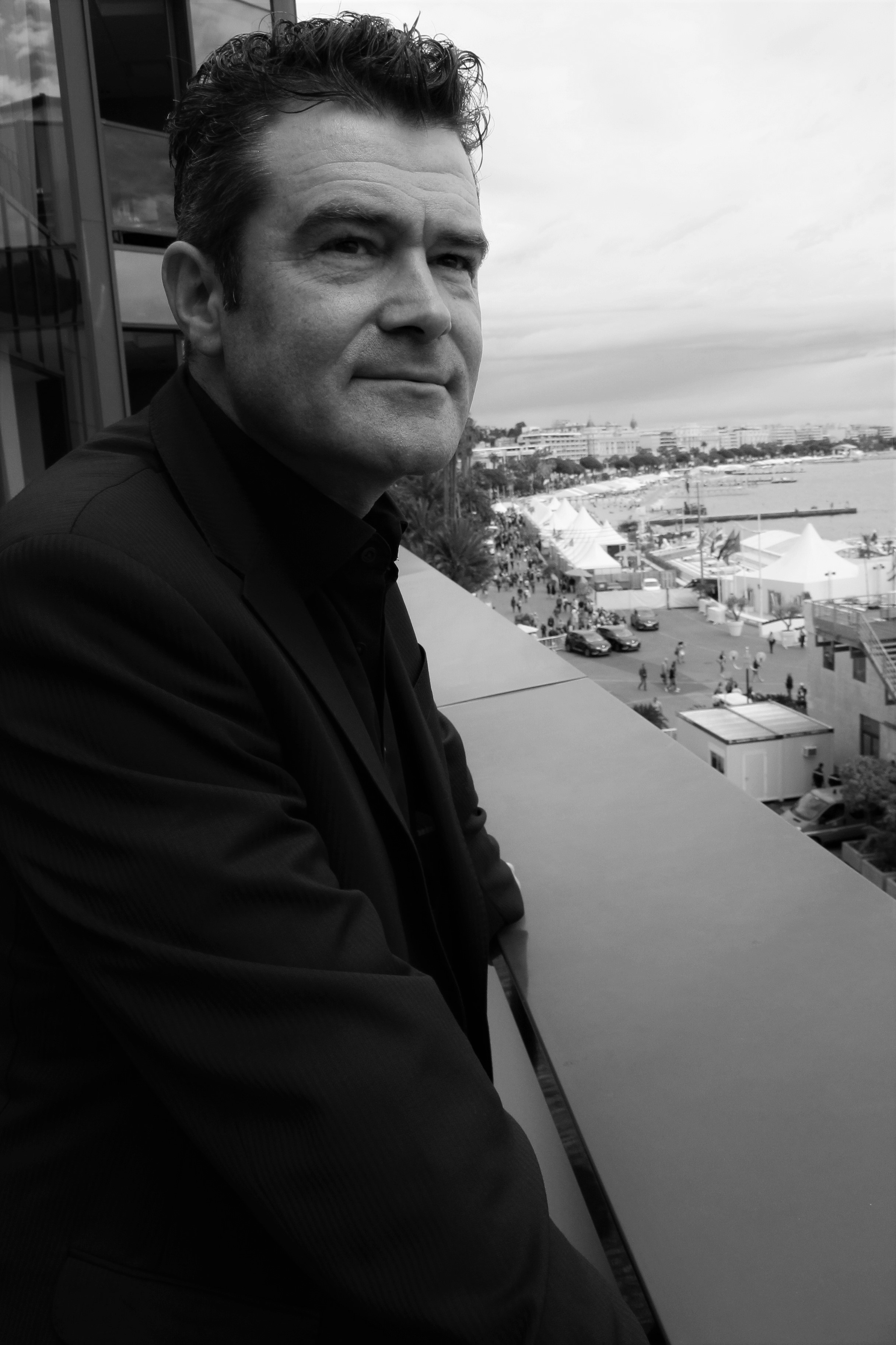 Ecco Mylla presenting Detsky Graffams Film 90 Grad Nord at 2015 Cannes Film Festival.